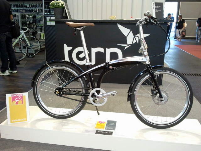 Tern Eclipse S11i bicycle, winner of a 2011 Eurobike Award.